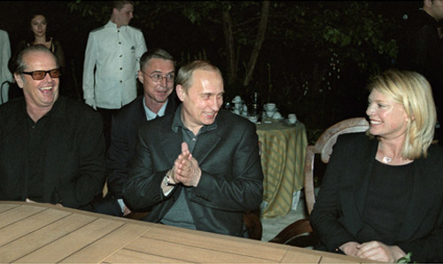 NIKOLINA GORA, MOSCOW REGION. President Putin meeting with participants in the 23rd Moscow International Film Festival. With actors Jack Nicholson and Peta Wilson.